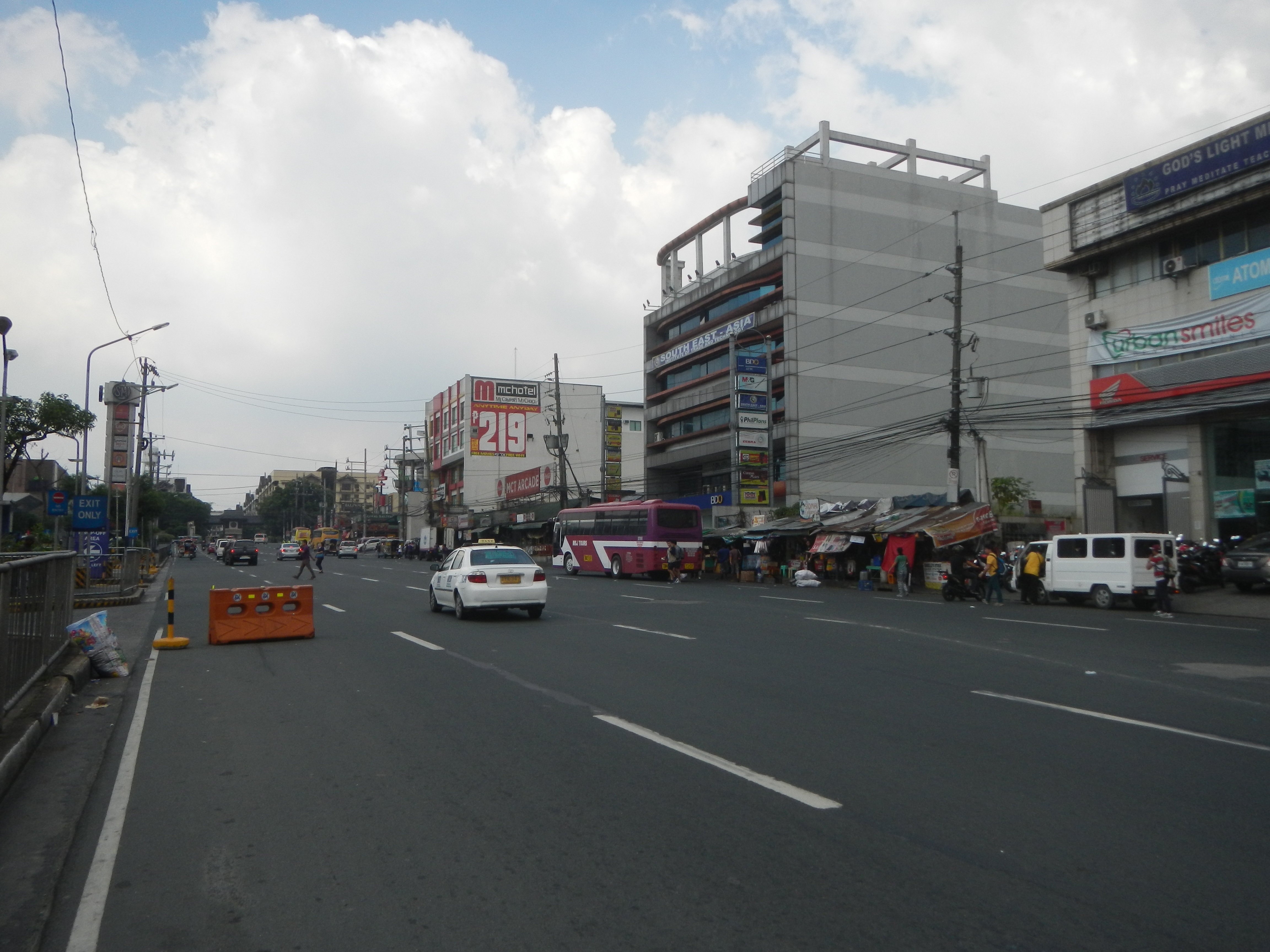 SM City Fairview Mindanao Avenue station & Regalado Avenue station Greater Lagro 14°44'37"N 121°5'29"E Mindanao Avenue station Regalado Avenue station Legislative districts of Quezon City District 5, Greater Lagro, Novaliches, District, Barangays of Quezon City, Quezon City along Quirino Highway and Regalado Highway (Note: Judge Florentino Floro, the owner, to repeat, Donor Florentino Floro of all these photos hereby donate gratuitously, freely and unconditionally all these photos to and for Wikimedia Commons, exclusively, for public use of the public domain, and again without any condition whatsoever).